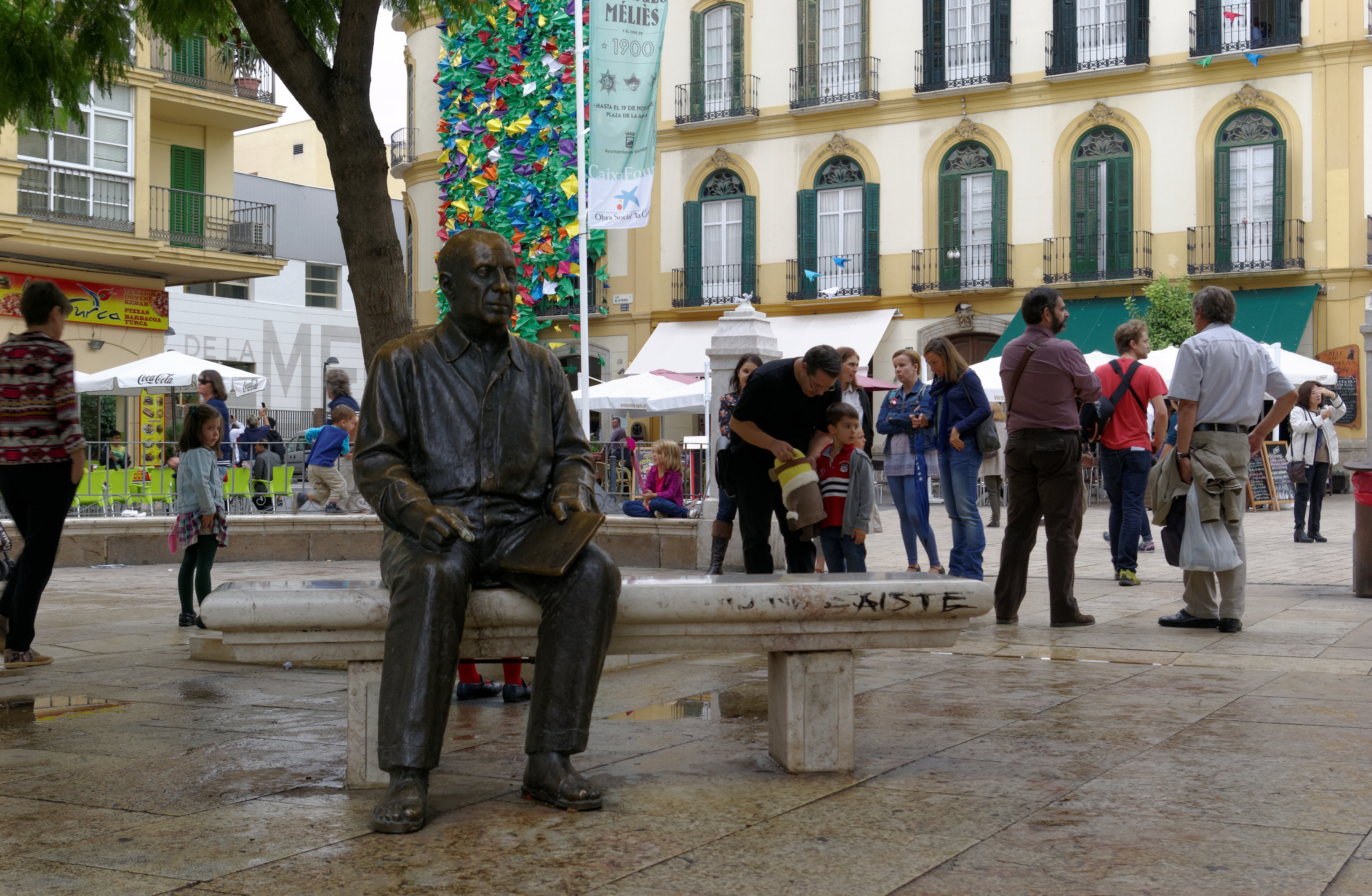 Spain, Malaga, Plaza de la Merced, Statue of Picasso